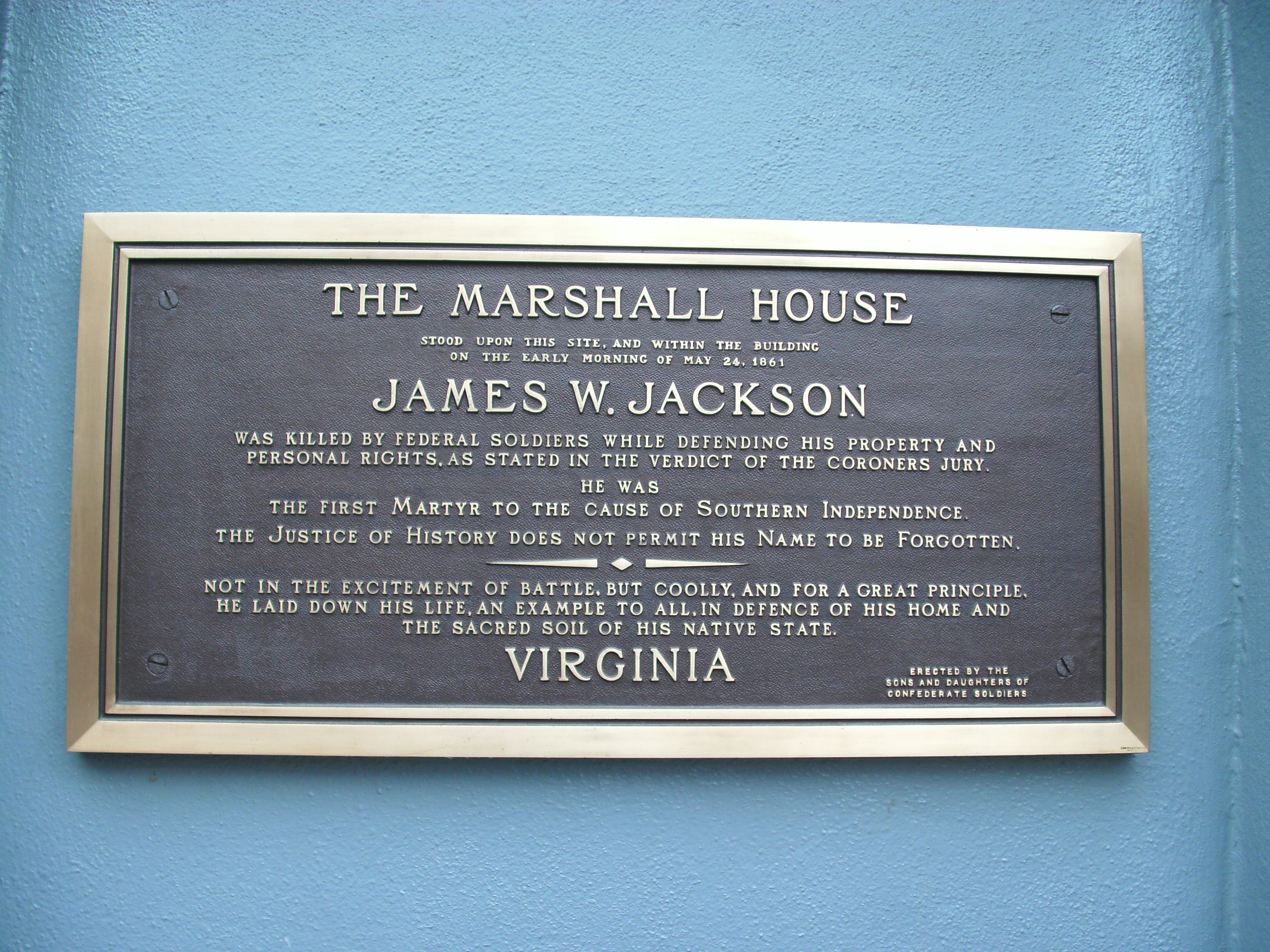 Alexandria, VA, September 2009 GEDSC DIGITAL CAMERA